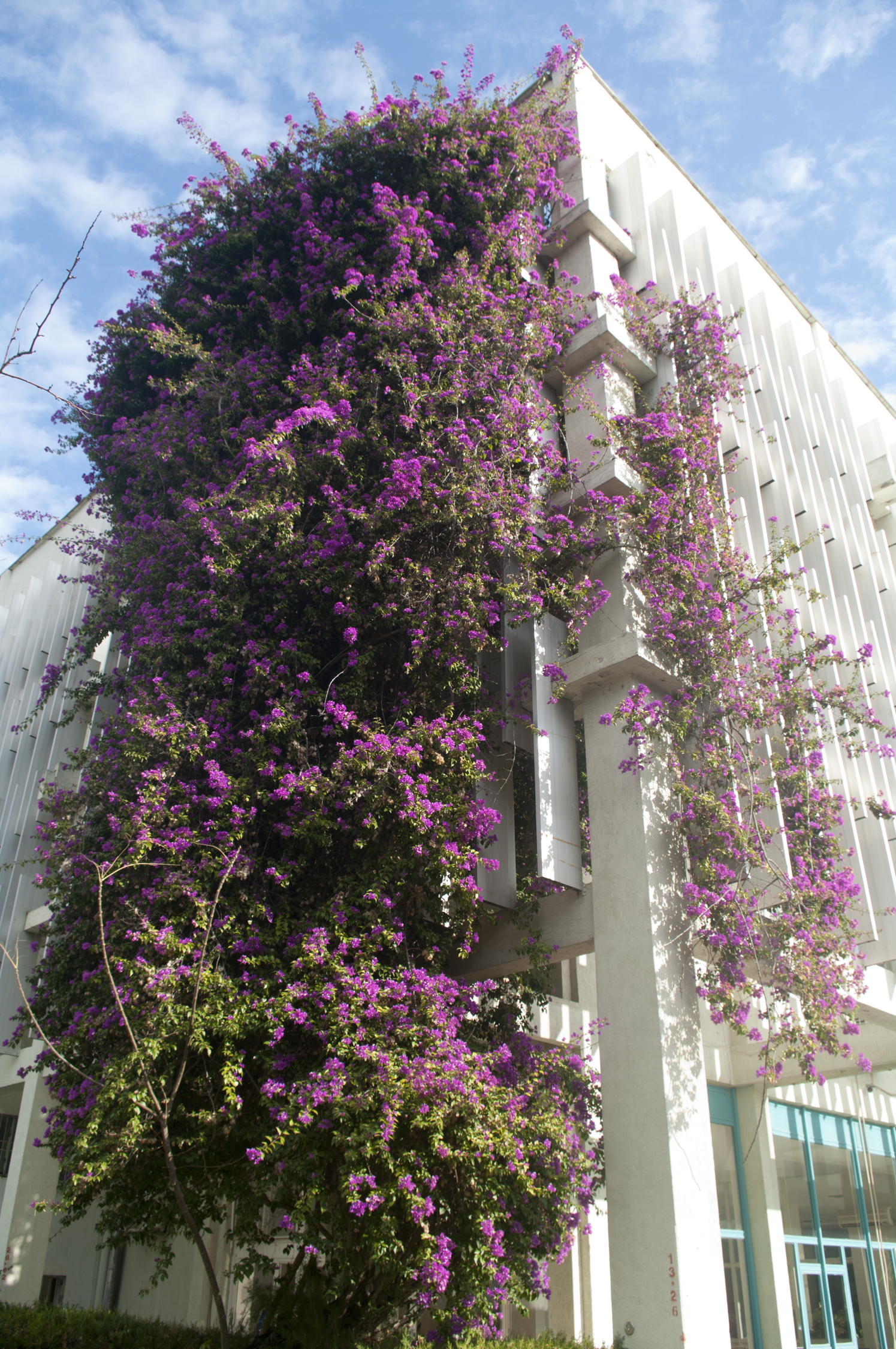 A view of southwestern corner of the main administration building of Faculty of Medicine, Çukurova University. Balcalı, Sarıçam, Adana - Turkey.